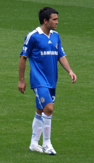 Deco